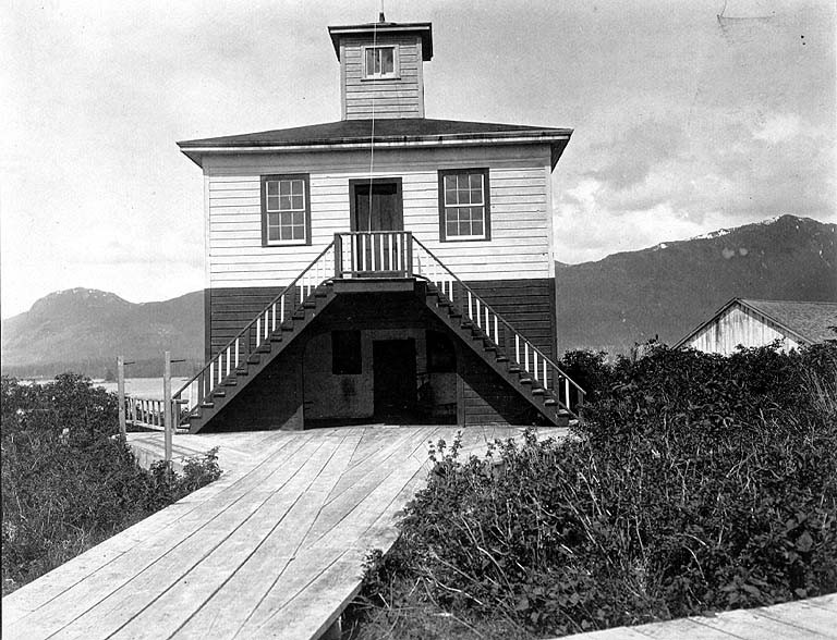 On verso of image: "Skookum" house (jail) and fire department, Metlakahtla, Alaska Subjects (LCTGM): Fire stations--Alaska--Metlakatla; Jails--Alaska--Metlakatla